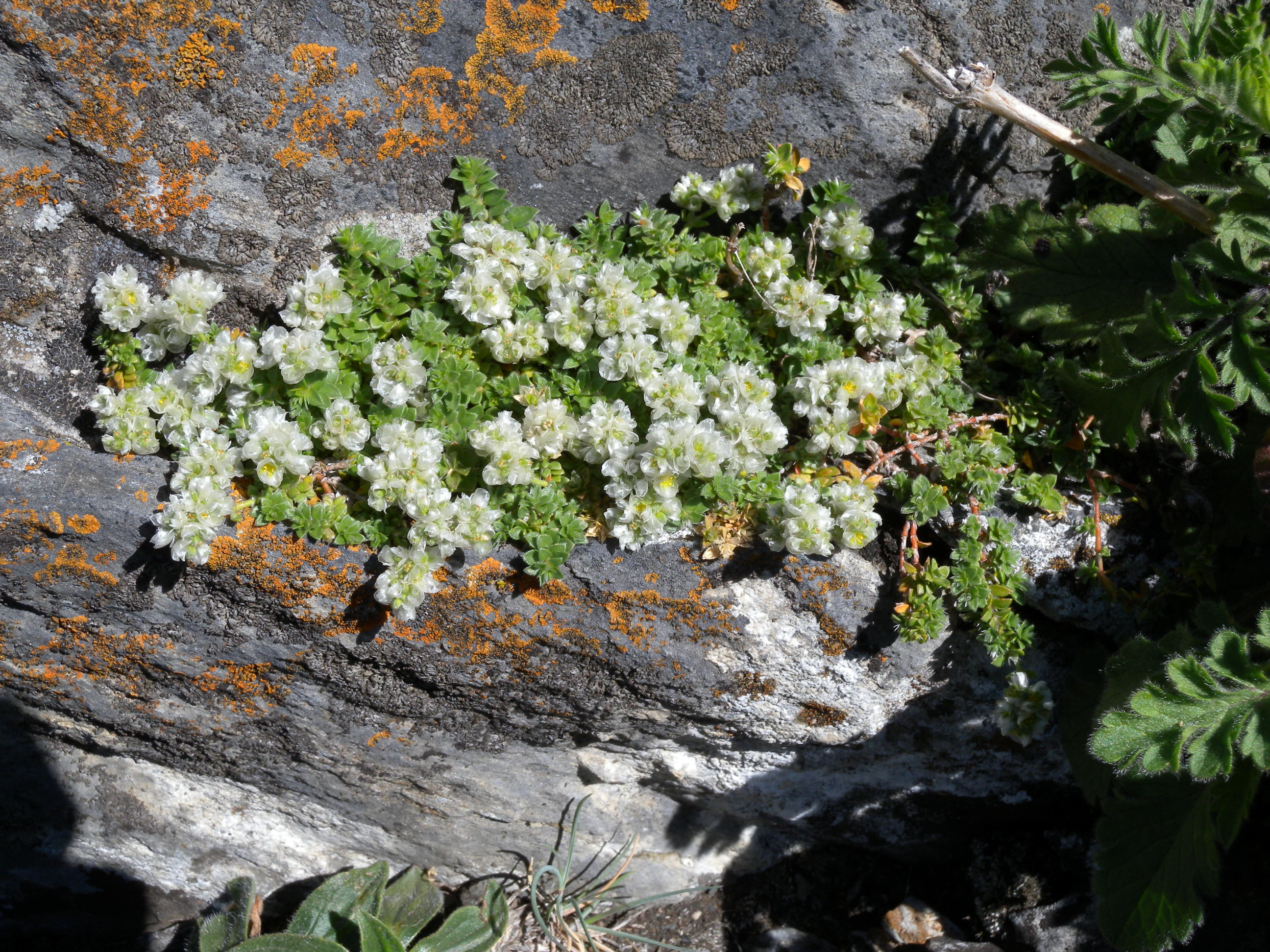 Paronychia kapela subsp. serpyllifolia, Setcases, Catalonia, Spain